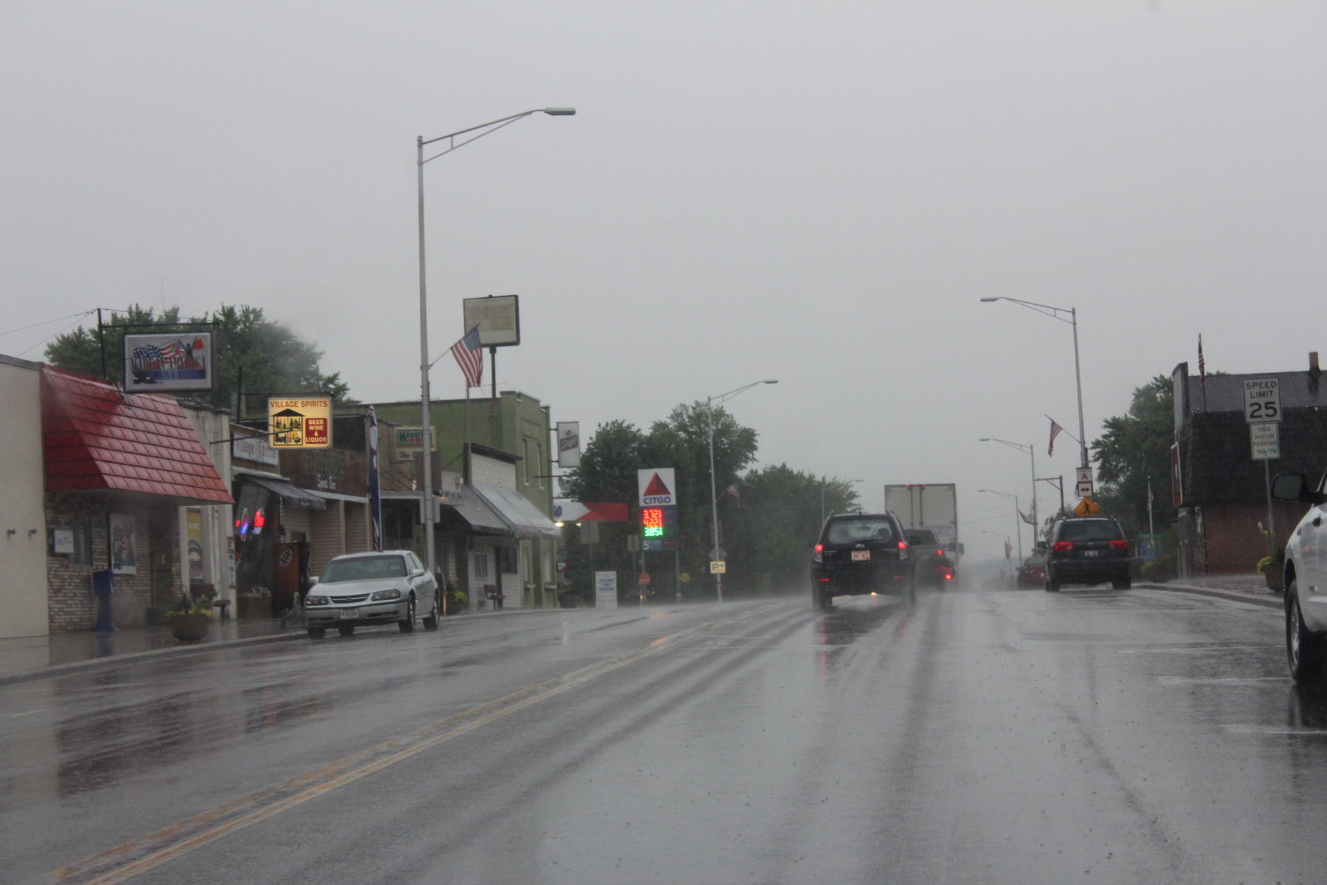 Looking east at downtown Oxford, Wisconsin on Wisconsin Highway 82 in the rain.